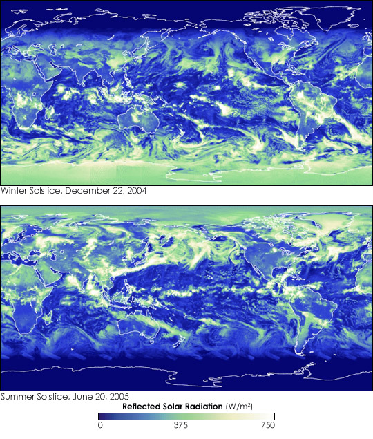 Two images showing the amount of reflected sunlight at winter and summer solstices (lighter color means more reflection).